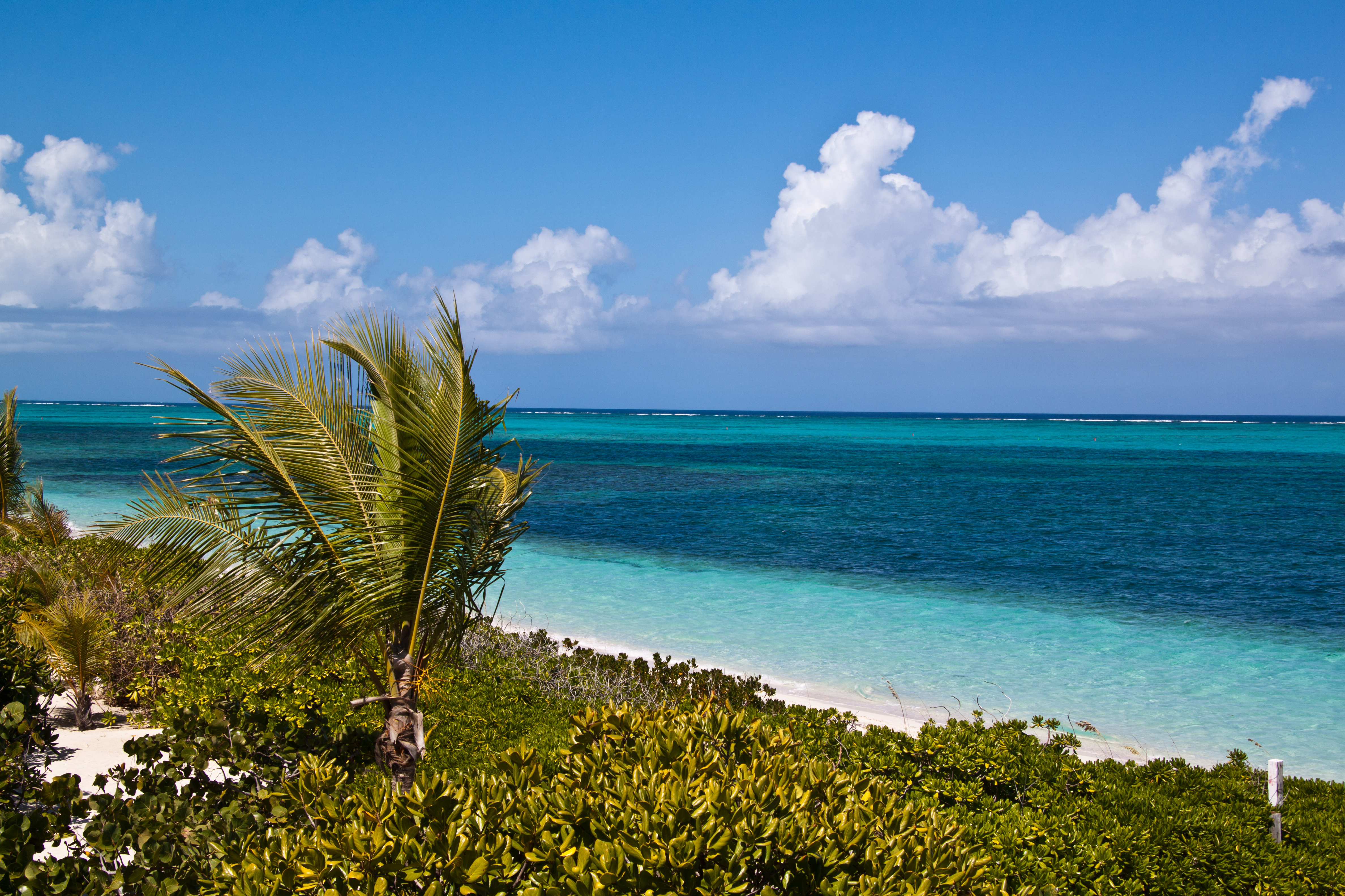 Taken February, 2011 in Turtle Cove, Providenciales, Turks and Caicos Islands ¹⁄₂₀₀ sec at f/11, ISO100, no flash.